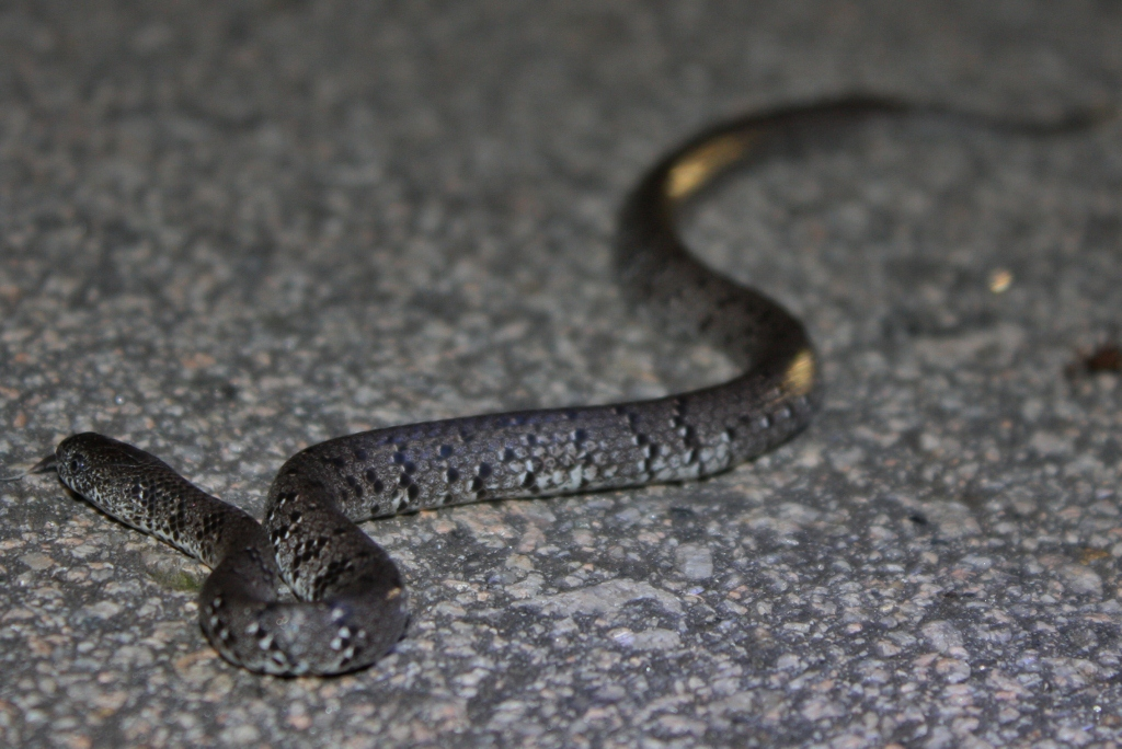 Pareas margaritophorus taken in Pat Sin Leng Country Park.